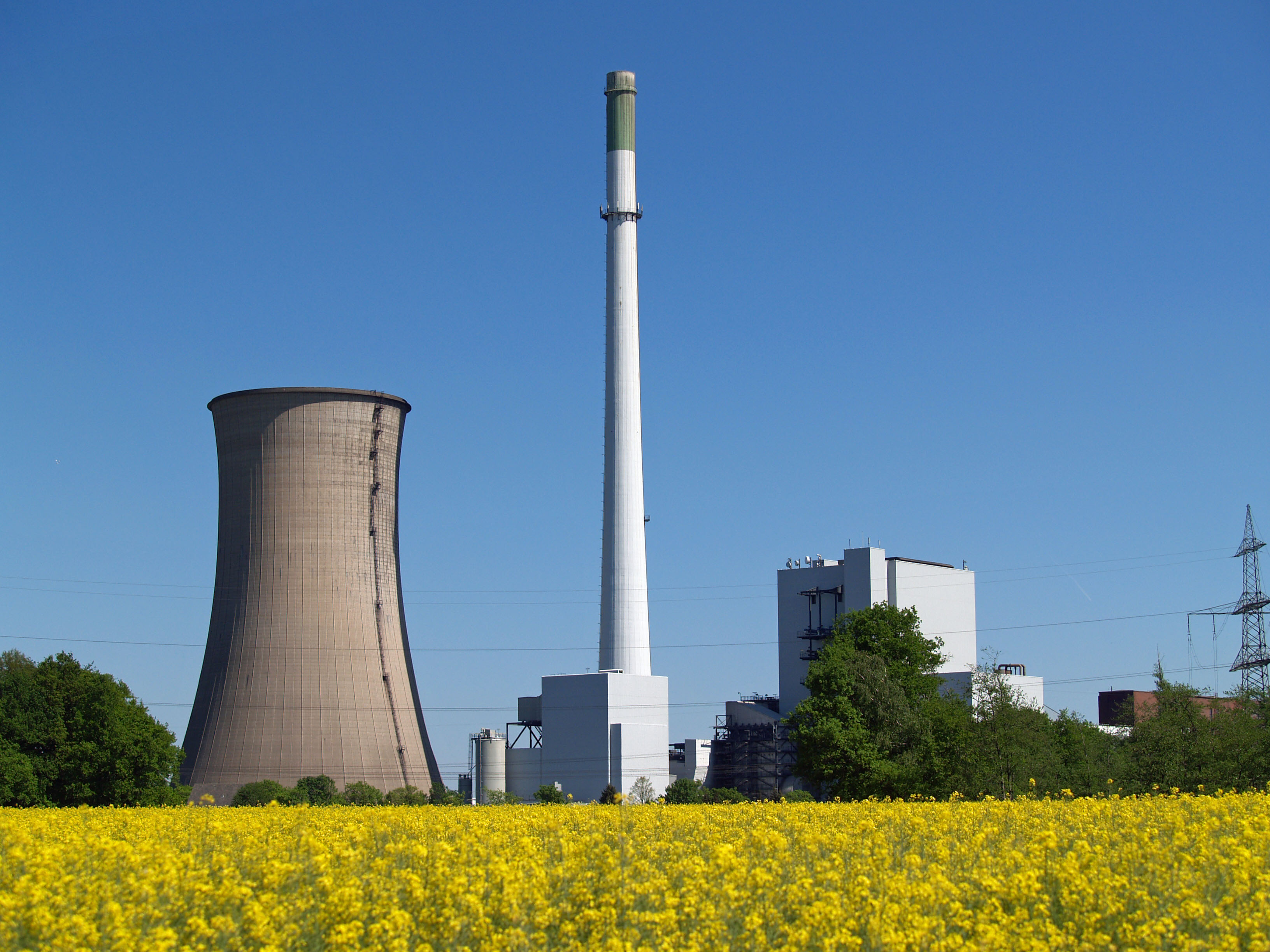 Coal Power plant Gustav Knepper at Castrop-Rauxel, border to Dortmund, Germany